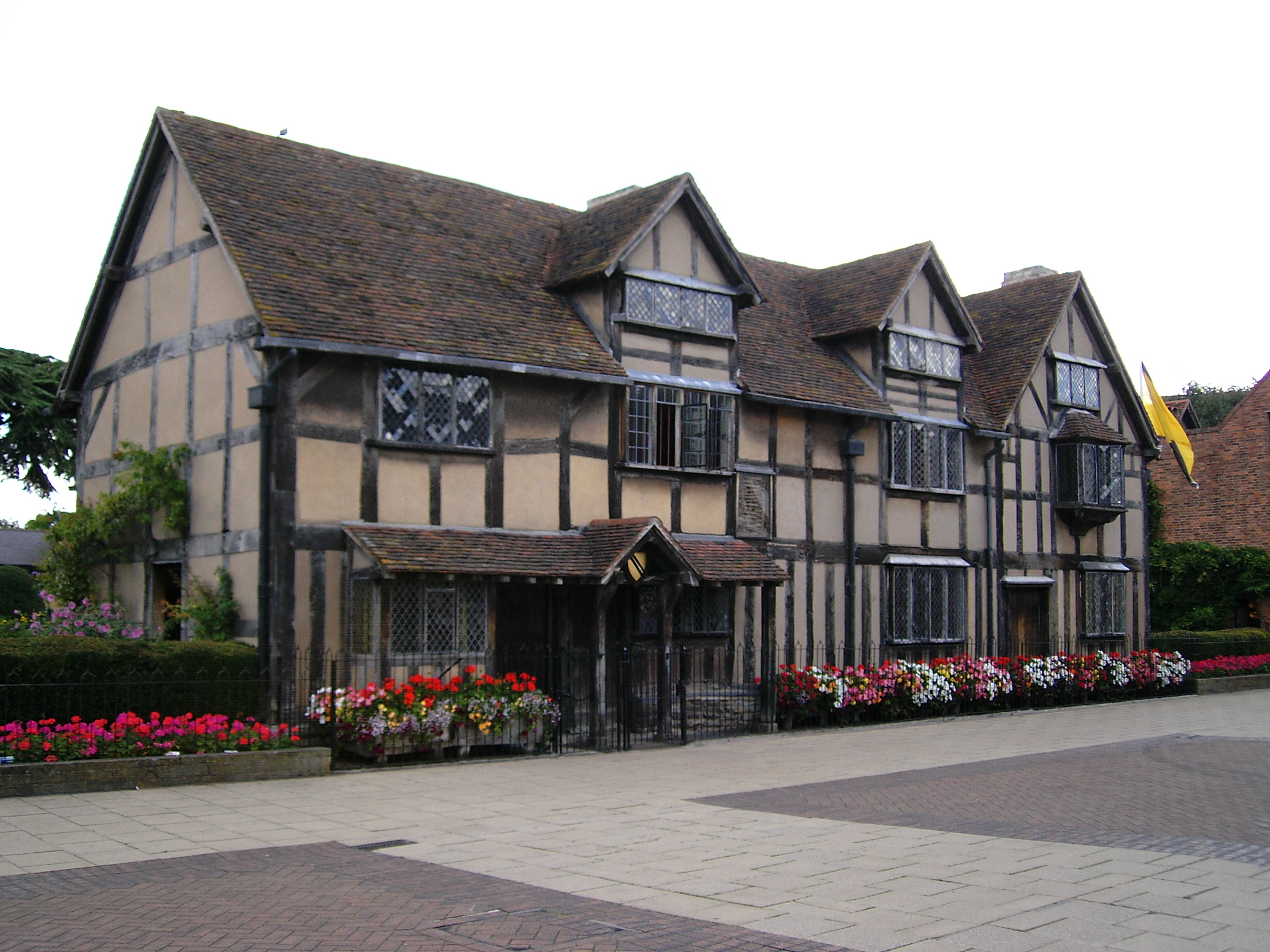 William Shakespeare's birthplace, Stratford-upon-Avon, Warwickshire, England.